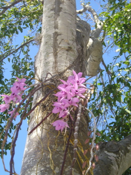 Florida flower